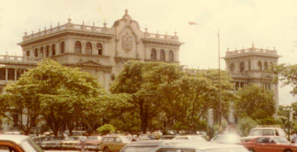 Guatemala City, National Palace from Central Square. I took this photograph in 1979 and hereby release it to Wikipedia and the public domain. -- Infrogmation 00:21 Dec 5, 2002 (UTC)